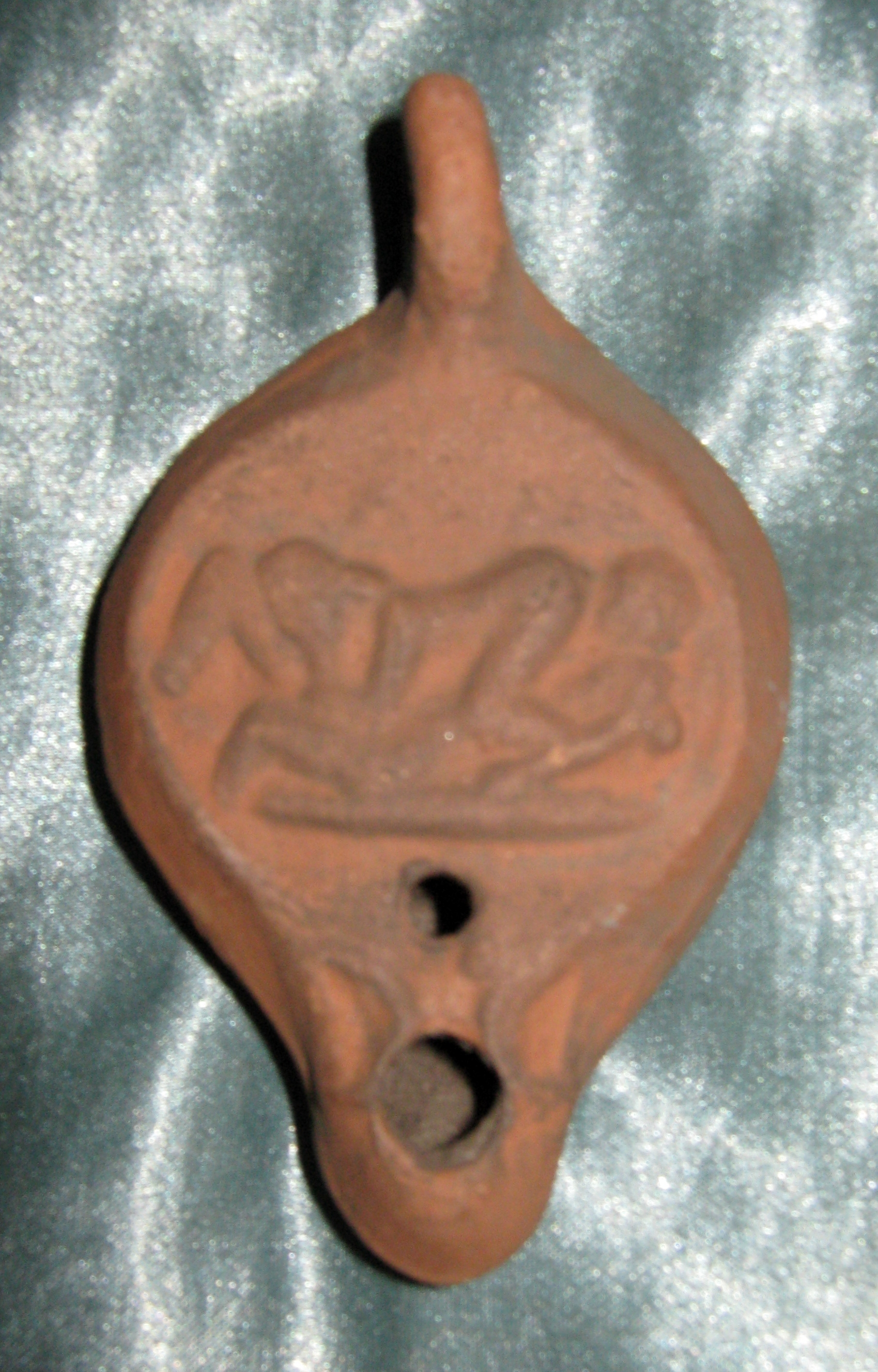 Clay lamp showing a couple making love, German private Collection. PAY ATTENTION! This picture shows not an ancient roman oil lamp but a modern false. (see discussion)